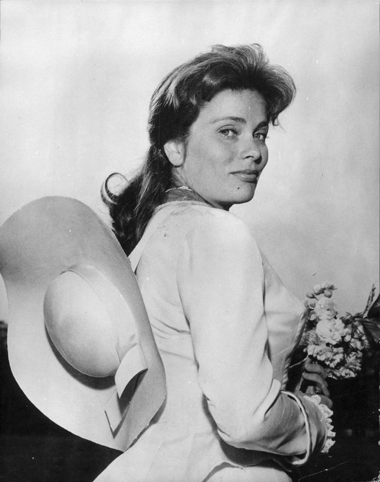 A portrait of Ulla Jacobsson.